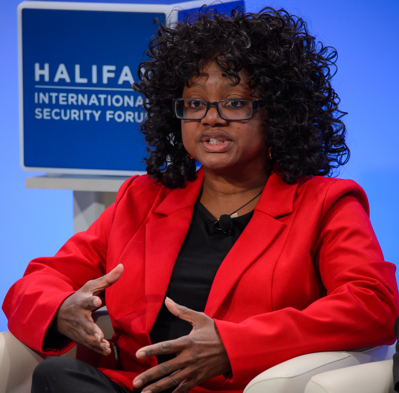 Ambassador Bonnie Jenkins, Visiting Fellow of the Perry World House, University of Pennsylvania, and The Brookings Institution, speaks on the plenary session “Nukes: The Fire and the Fury.”